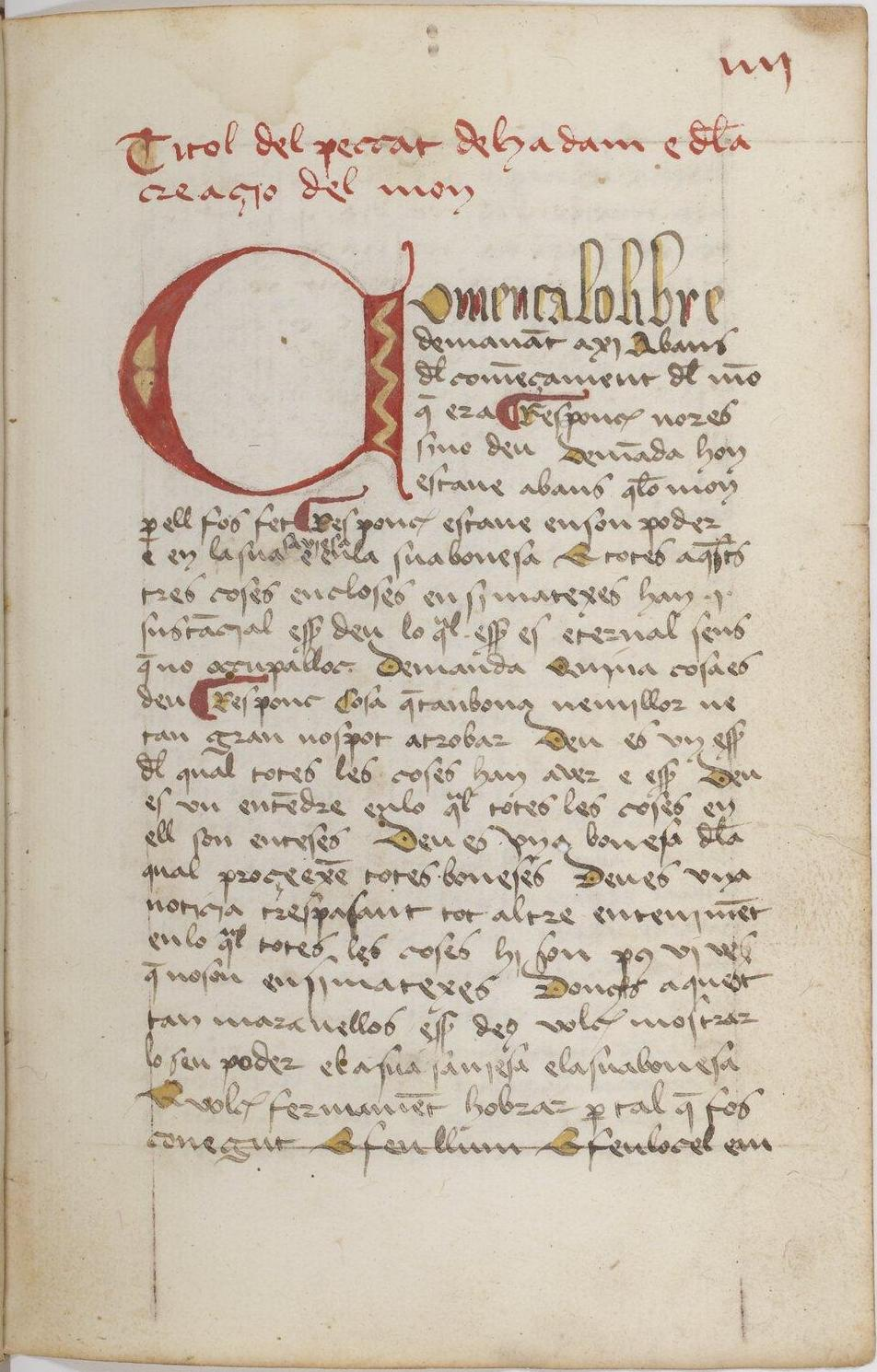 Page of a manuscript of the Biblia Parva